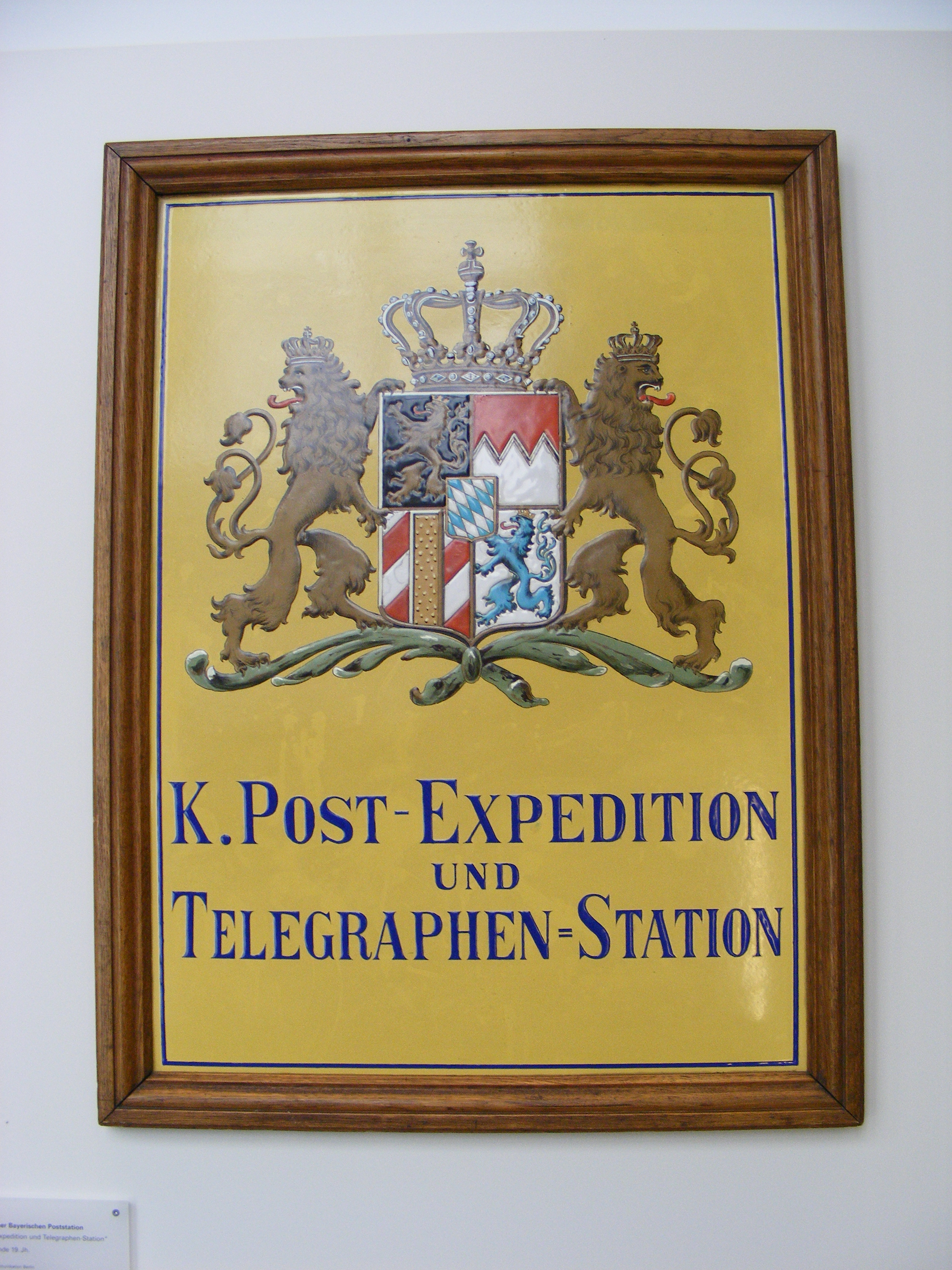 Baieri kuningliku posti- ja telegraafijaama silt XIX sajandist